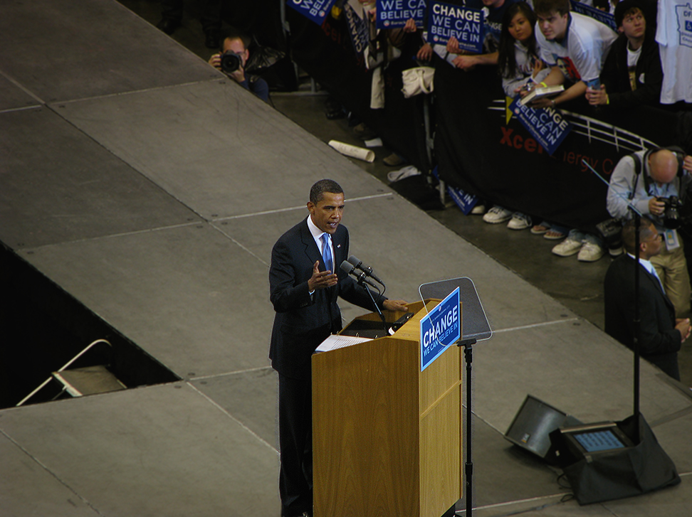 Barack Obama declares victory – "I can stand before you and say I will be the Democratic nominee for President Of the United States" – 17,000 supporters strong inside the Xcel Energy Center in St. Paul and an additional 15,000 watching a big screen outside, Barack Obama began his campaign against John McCain.